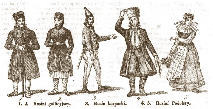 Rusyns from Galicia, Carpathian region and Podolia.